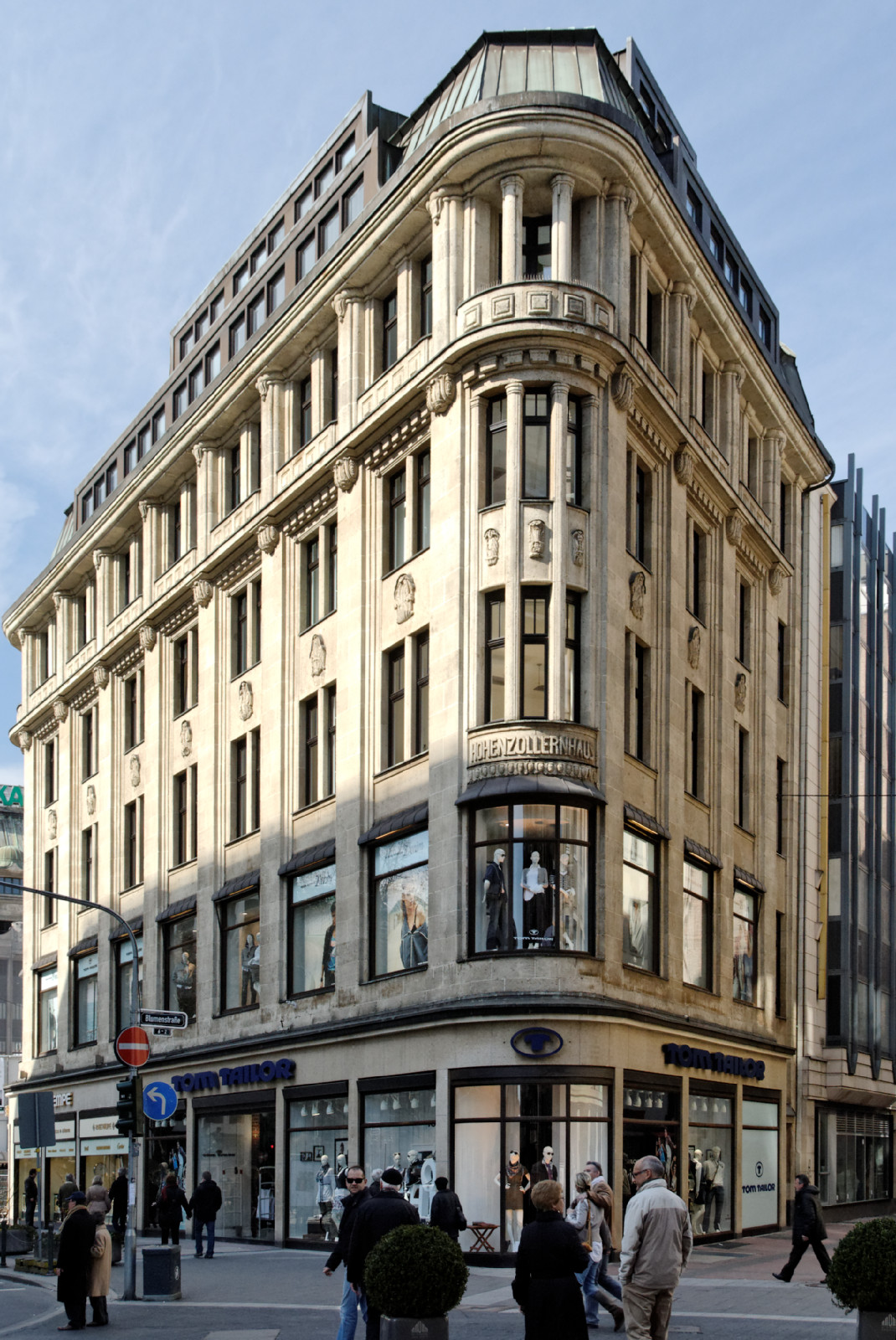 Hohenzollernhaus, Königsallee 14 and 16 in Düsseldorf-Stadtmitte, Germany This is a photograph of an architectural monument.